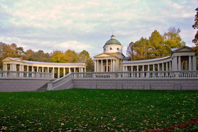 Arkhangelskoye. Kolonnada.